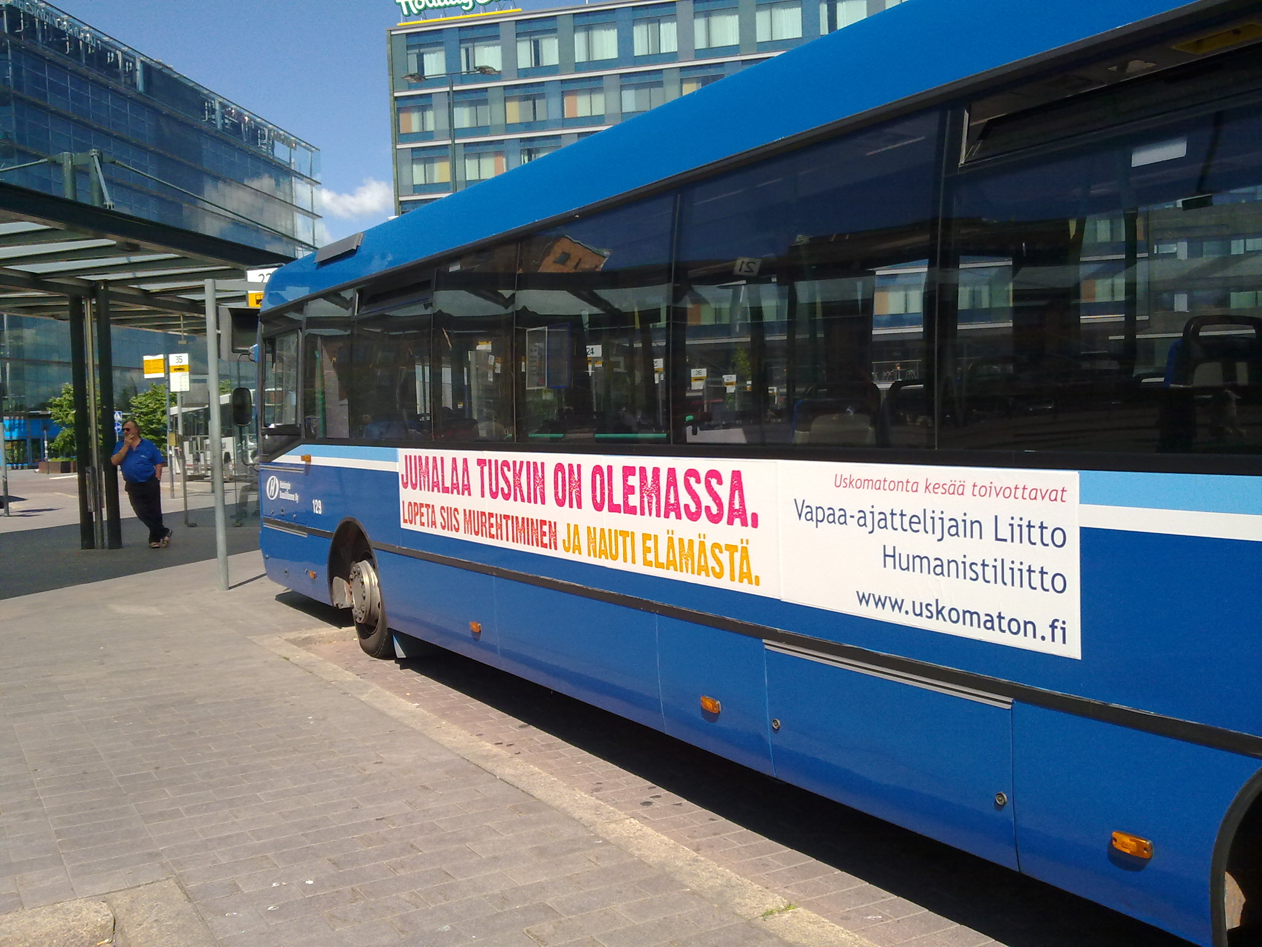 One of the atheist adverts on the side of bus in Helsinki, Finland. The ads were paid by Finnish atheist organizations: "Vapaa-ajattelijain liitto" and "Humanistiliitto", and the campaign started June 22, 2009 and it ended July 5, 2009. Ikarus EAG E94 bus (#129) with Scania L94UB chassis. Helsingin Bussiliikenne Oy opeartor.